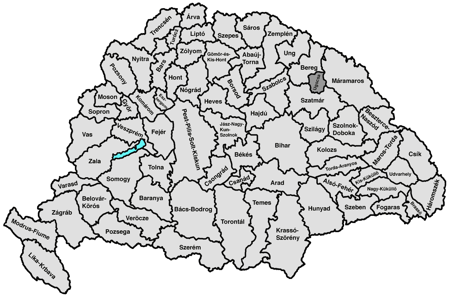 own edit of Image:Zala.png